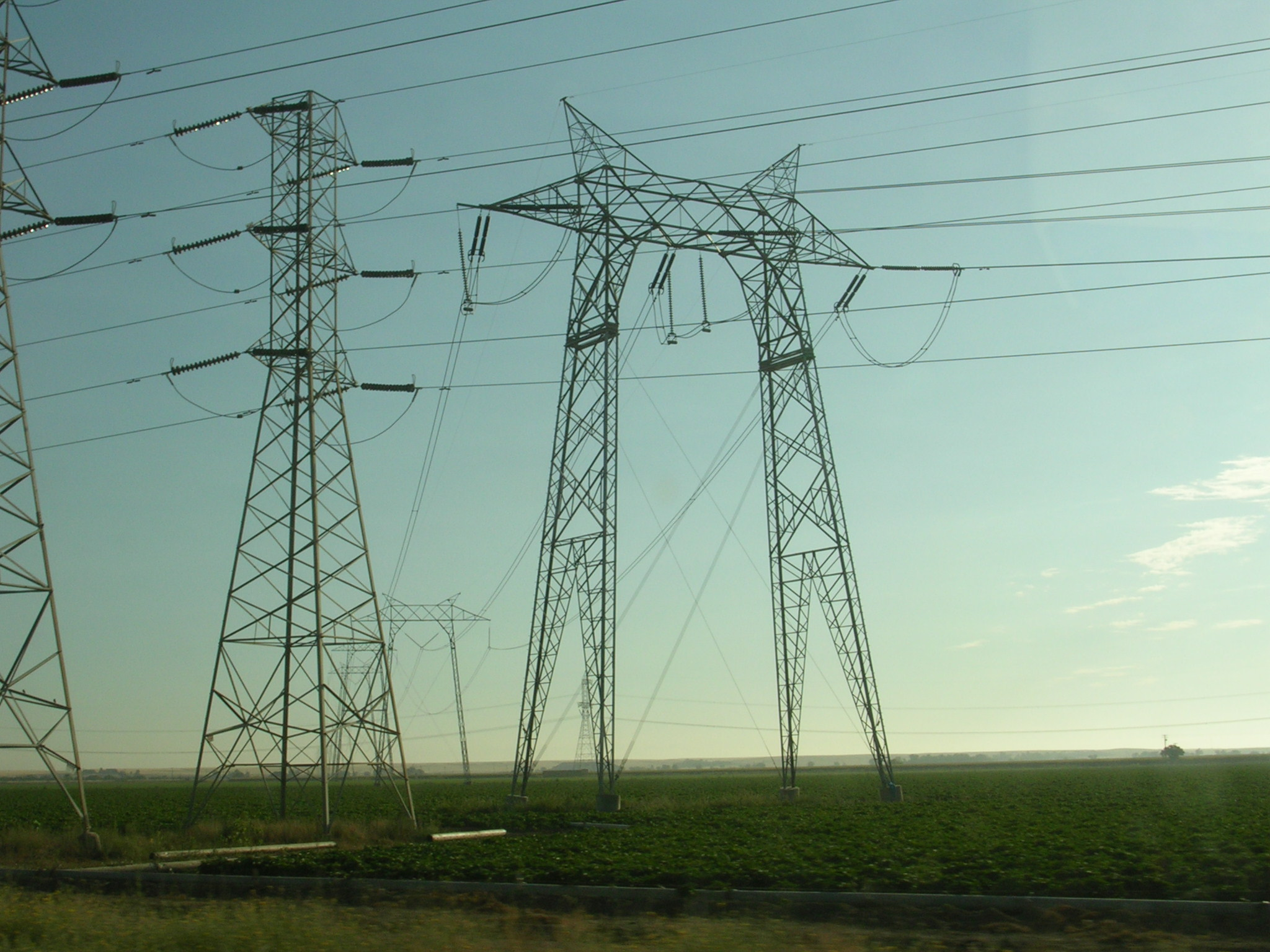 Path 15: A closeup view of two dual-circuit Pacific Gas and Electric 230 kV lines and one single-circuit 500 kV PG&E line as they split apart. The 230 kV lines head northwest, crossing I-505, and the 500 kV line heads northeast. Western Area Power Administration's single-circuit 500 kV line could be seen in the back. On Northbound Interstate 505 north of Winters (east of Esparto), Yolo County, California.